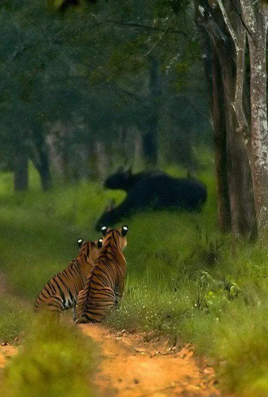 Sub-adult Tigers watching Gaurs in Bhadra Tiger Reserve, India